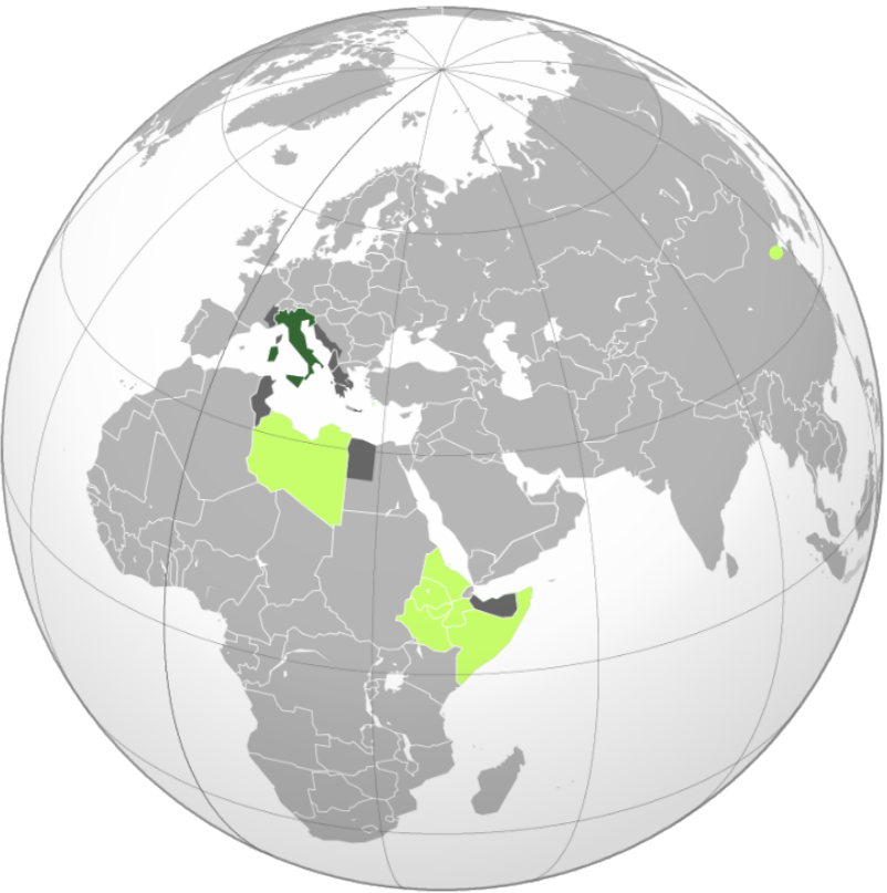 Possessions of the Italian colonial empire, and areas occupied by Italy during WW II.